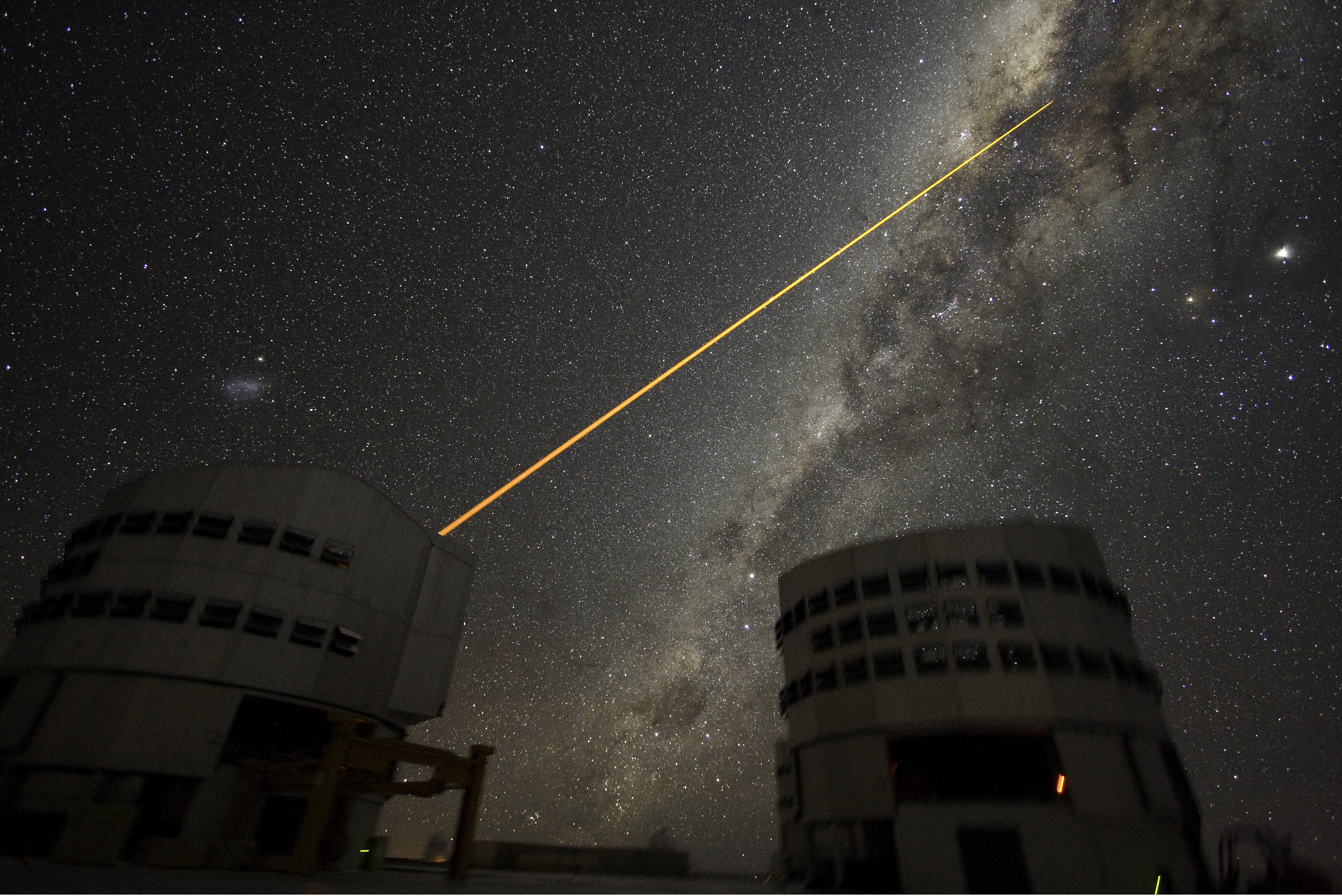 Astronomers at the Very Large Telescope (VLT) site in Chile are trying to measure the distortions of Earth's ever changing atmosphere. Constant imaging of high-altitude atoms excited by the laser which appears like an artificial star allow astronomers to instantly measure atmospheric blurring. This information is fed back to a VLT telescope mirror which is then slightly deformed to minimize this blurring. In this case, a VLT was observing our Galaxy's centre, and so Earth's atmospheric blurring in that direction was needed. The beam is almost invisible to the naked eye. The photograph was taken over a period of time thereby making the beam visible.